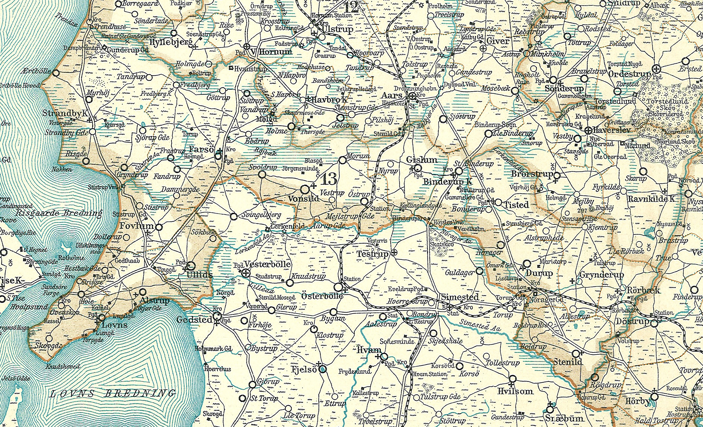 Map of Gislum Herred, Aalborg Countys in Denmark